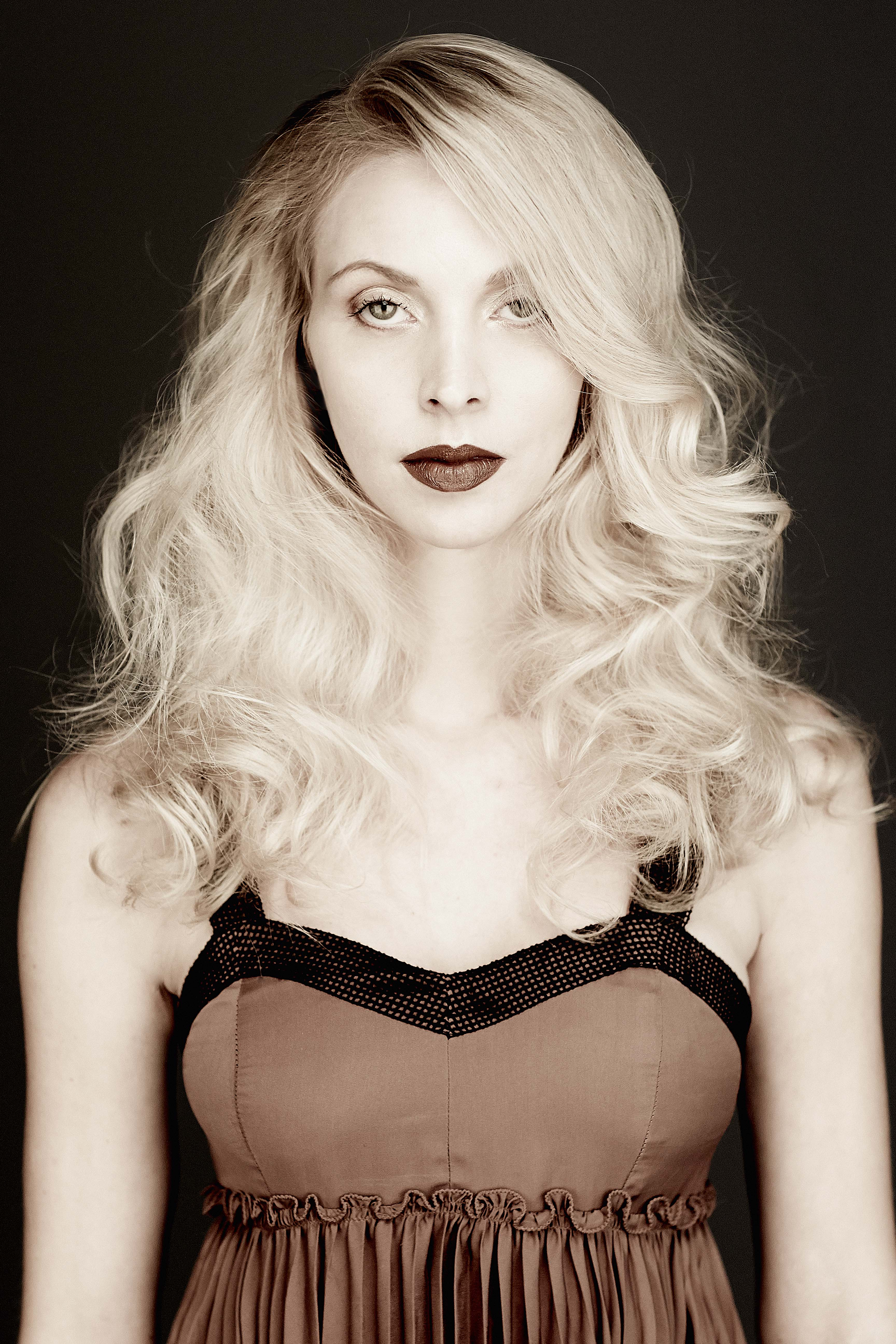 Simonetta Lein shot by international fashion photographer Giovanni Gastel in his Milan studio.